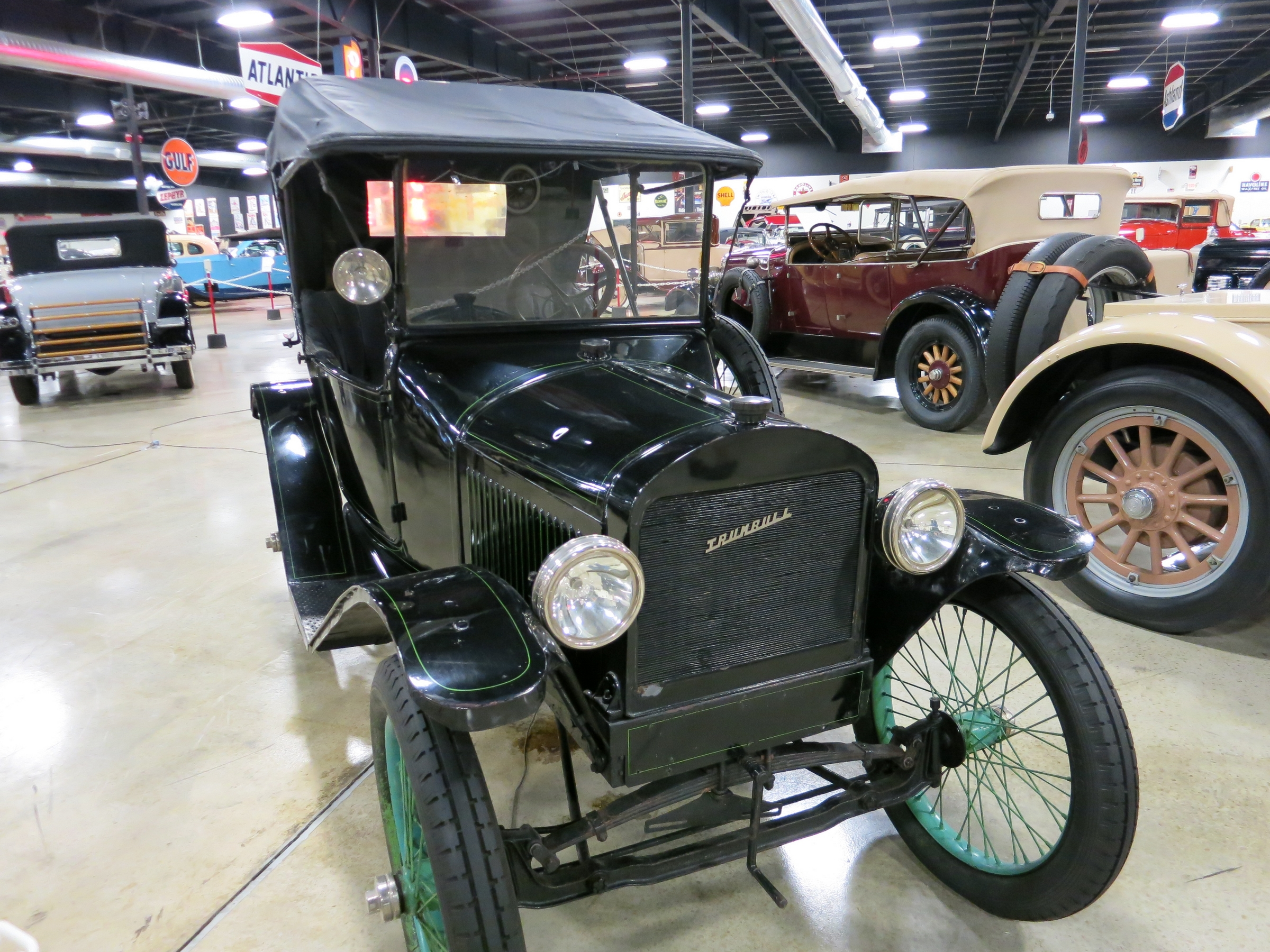 1915 Trumbull Cyclecar Tupelo Automobile Museum Tupelo, Mississippi